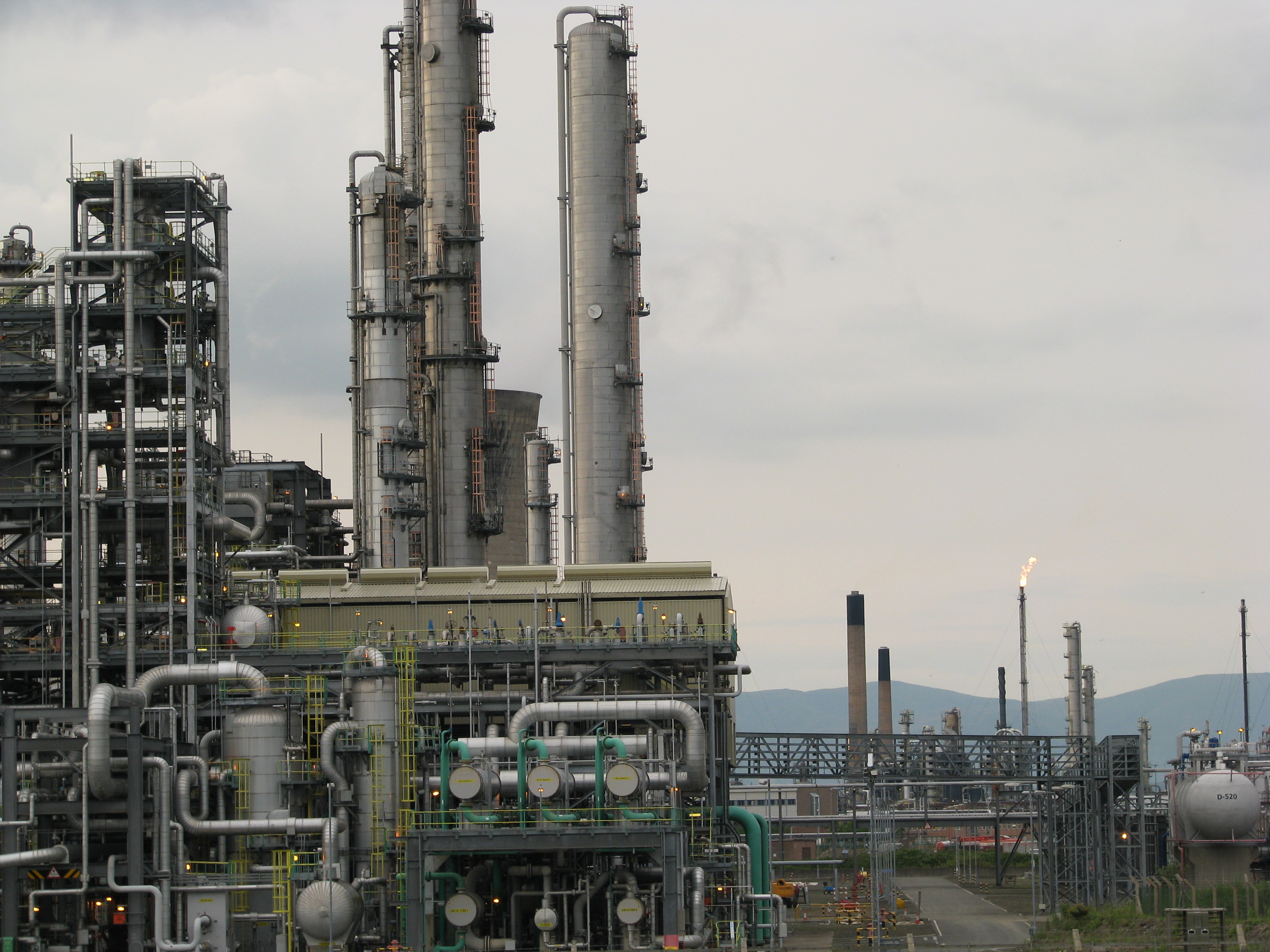 منطقة ريسوت الصناعية